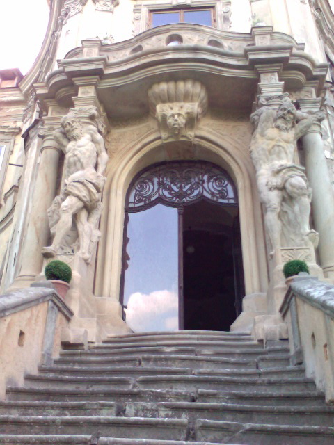 Chateau Trpist - Garden front with two Atlants (Hercules & a pal) supporting the balcony